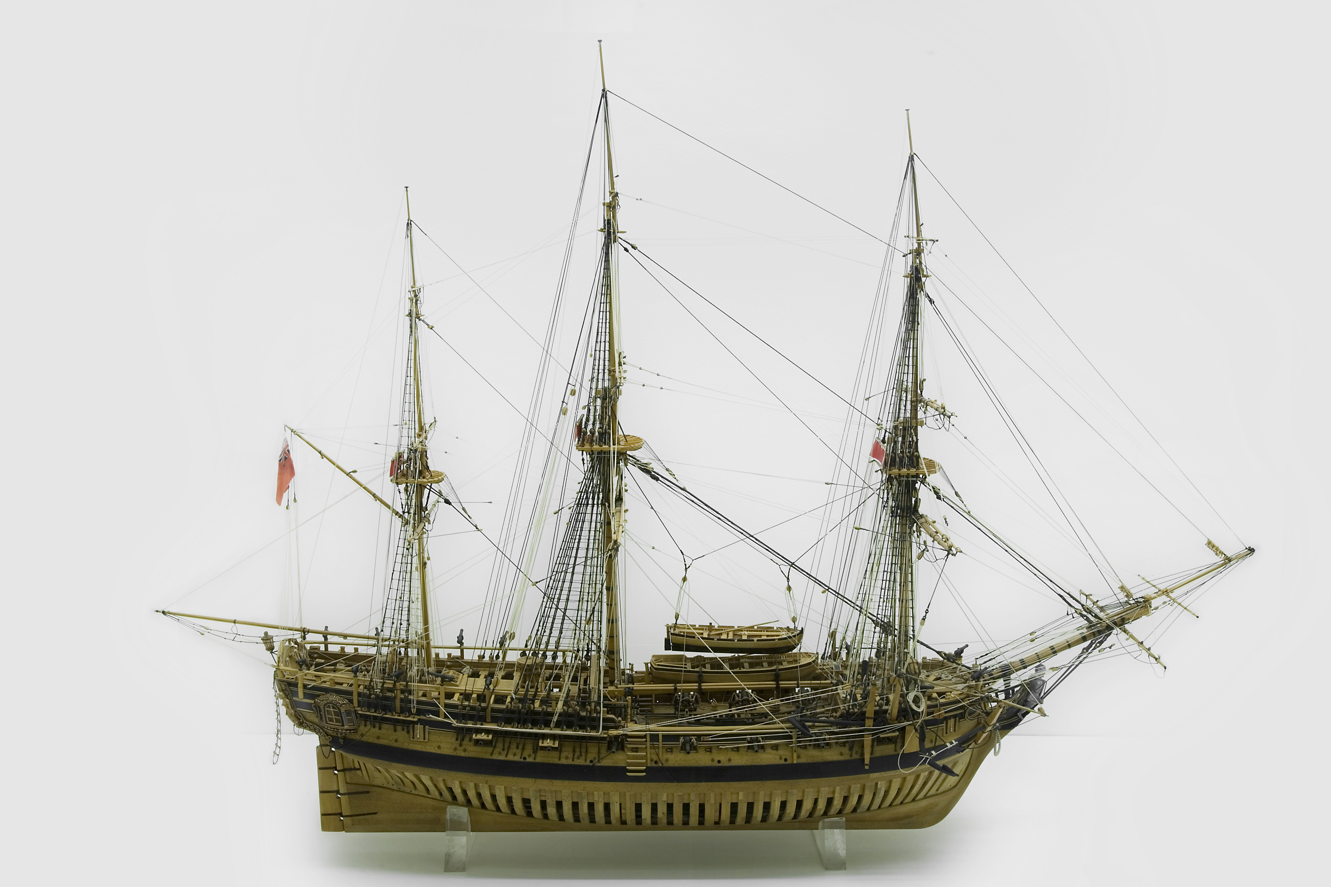 Scale model of the 'Atalanta' Lightly armed Sheerness 1776